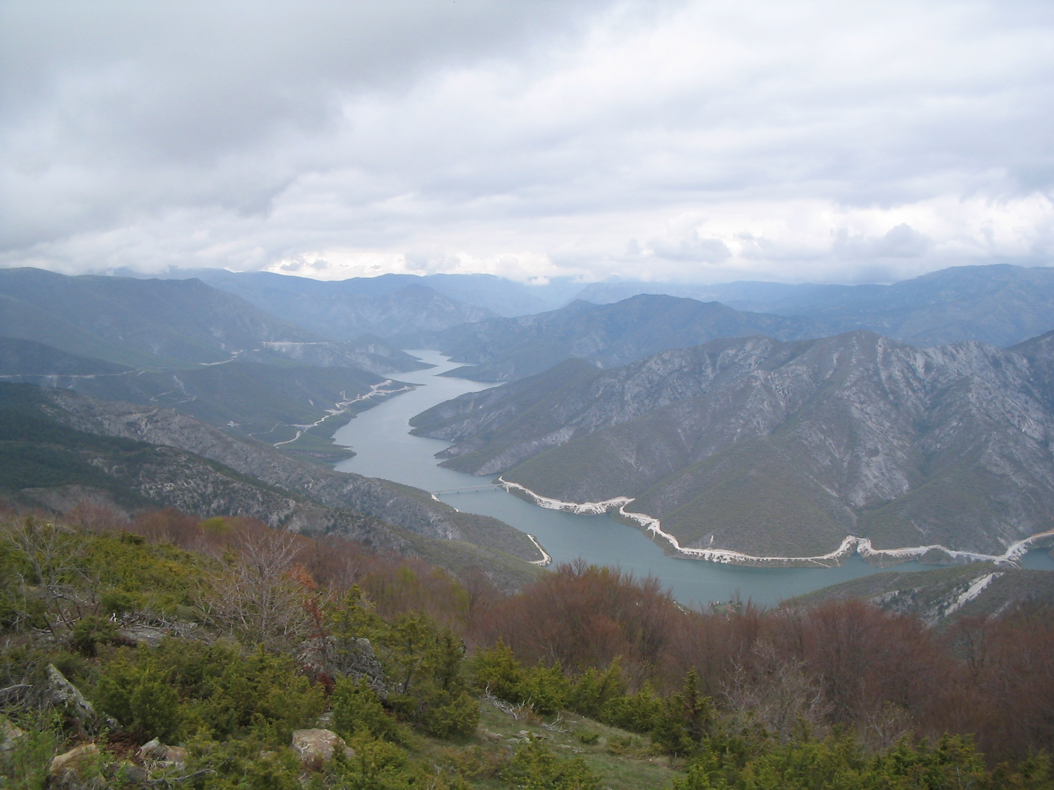 Kozjak dam from Fojnik peak, Republic of Macedonia